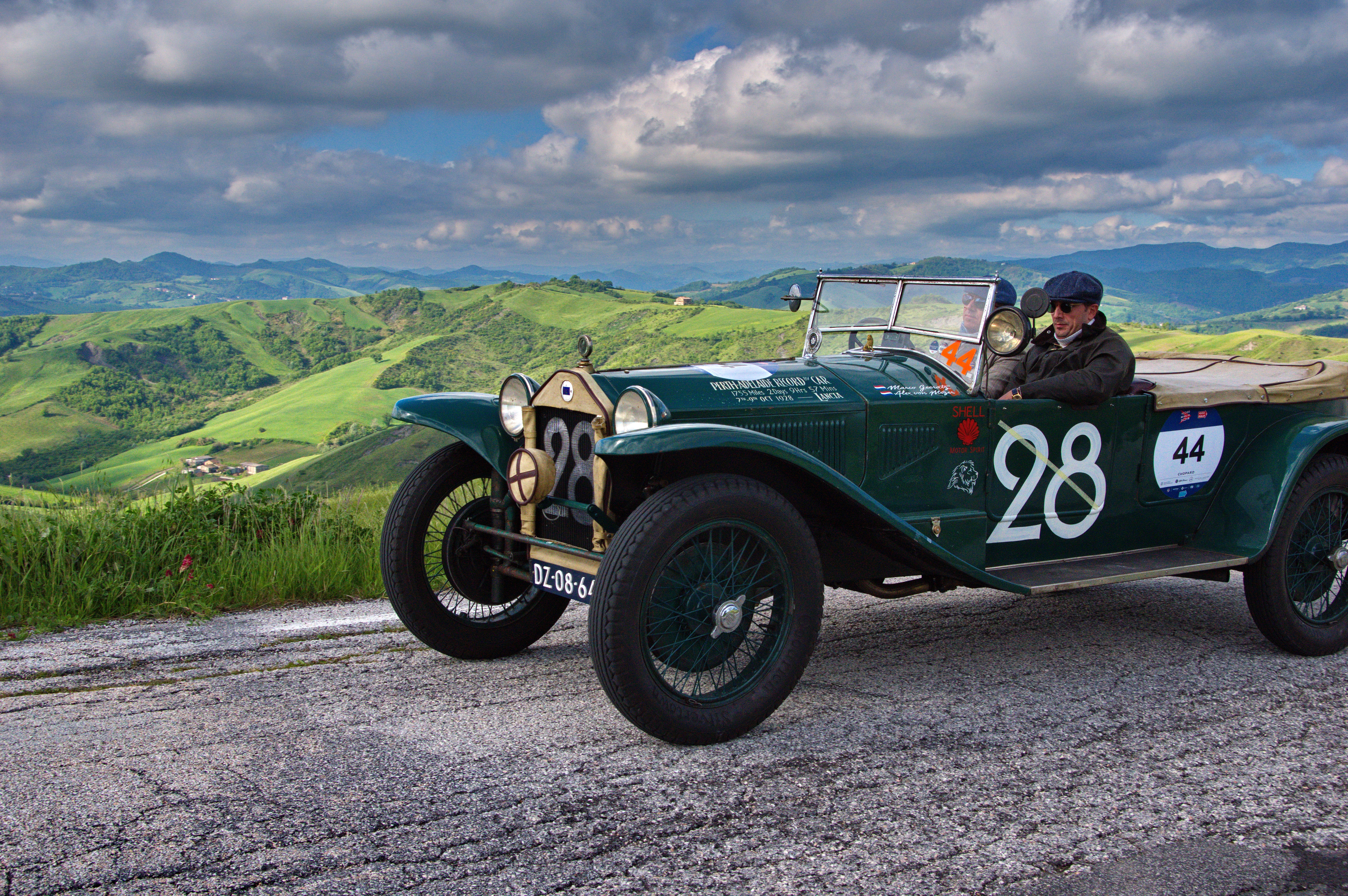 1928 LANCIA Lambda VIII Serie in the hills around Montefeltro, Marche for the 2019 Mille Miglia (16 May, 2019). This was driven by a team from Holland.